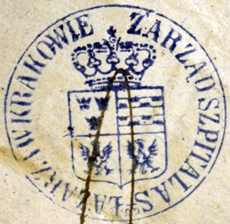 The seal of The Hospital of St Lazarus in Kraków featuring coat-of-arms of Galicia-Lodomeria, early 20th c. (prior to 1918)